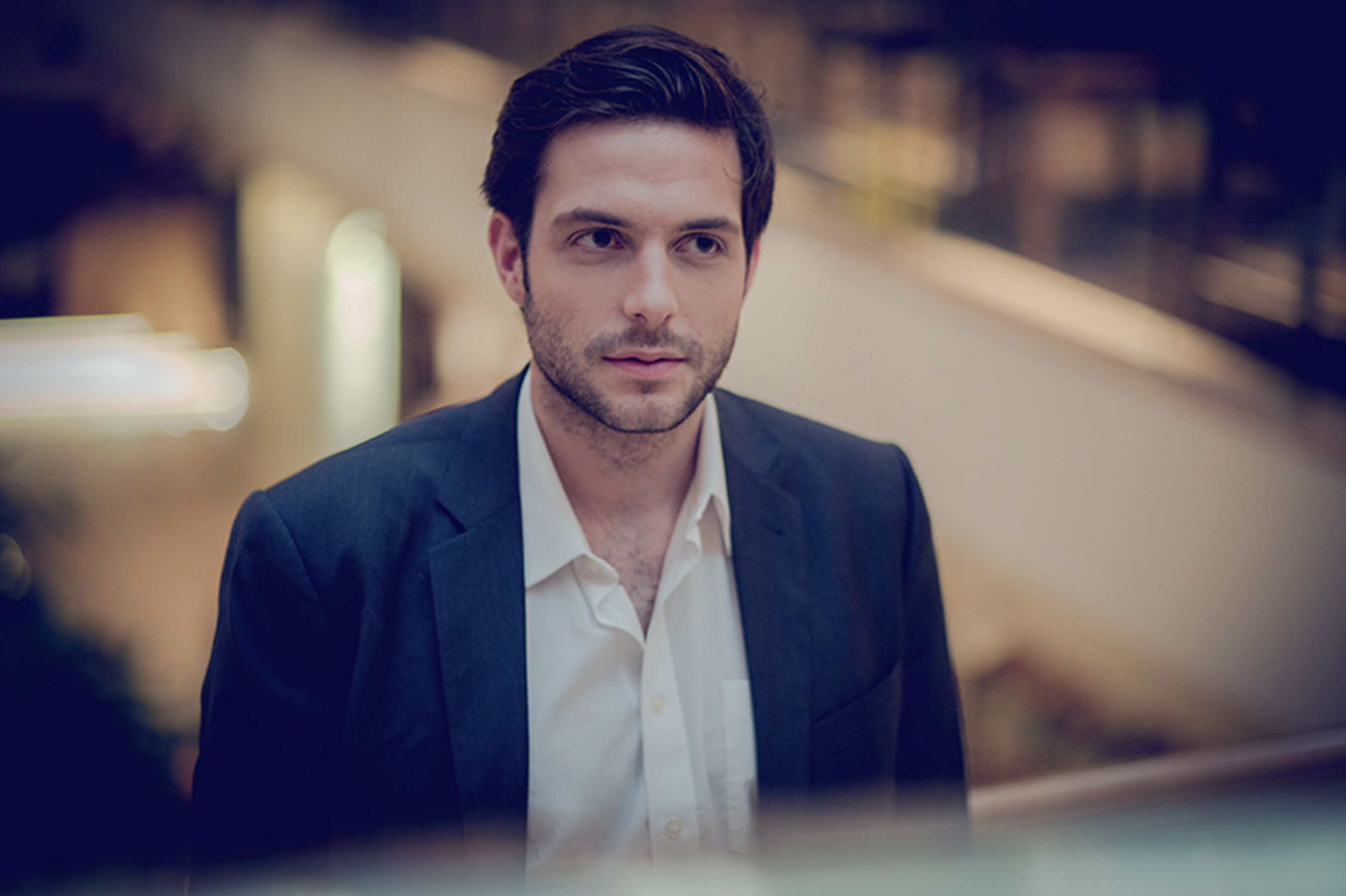 Nikolai Selikovsky - Photo by Katarina Balgavy.